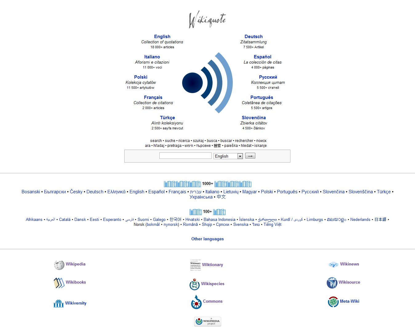 Screenshot of the multilingual Wikiquote portal (